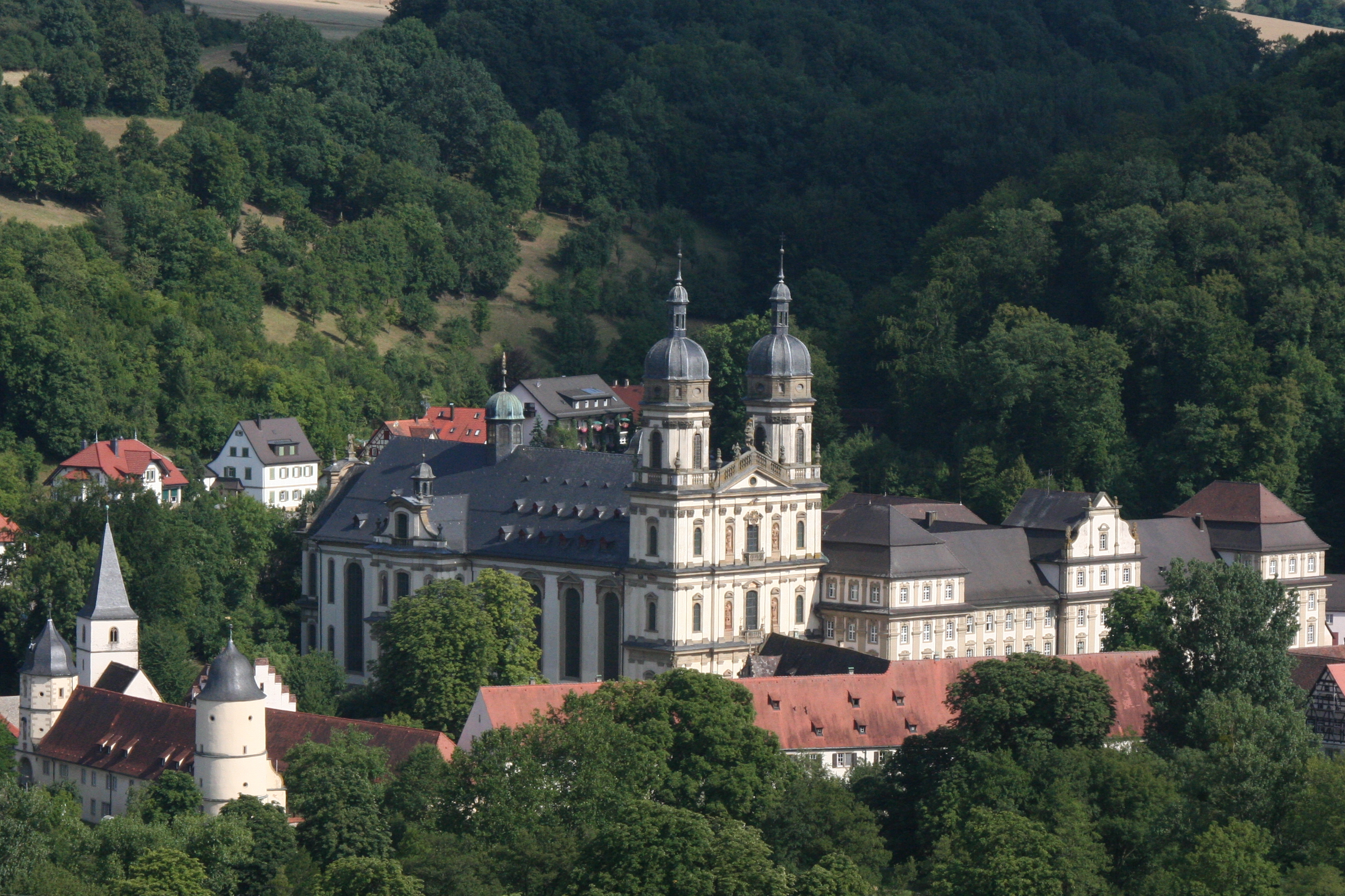 Schöntal monastery as seen from the West